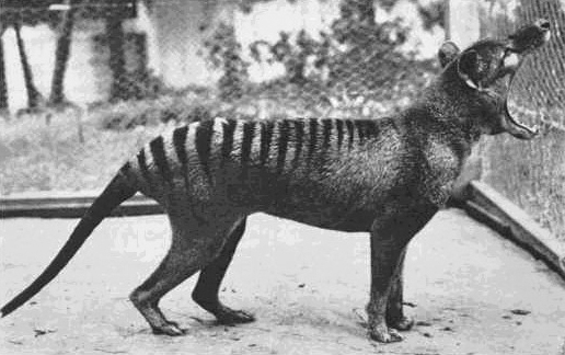 Last thylacine yawning.